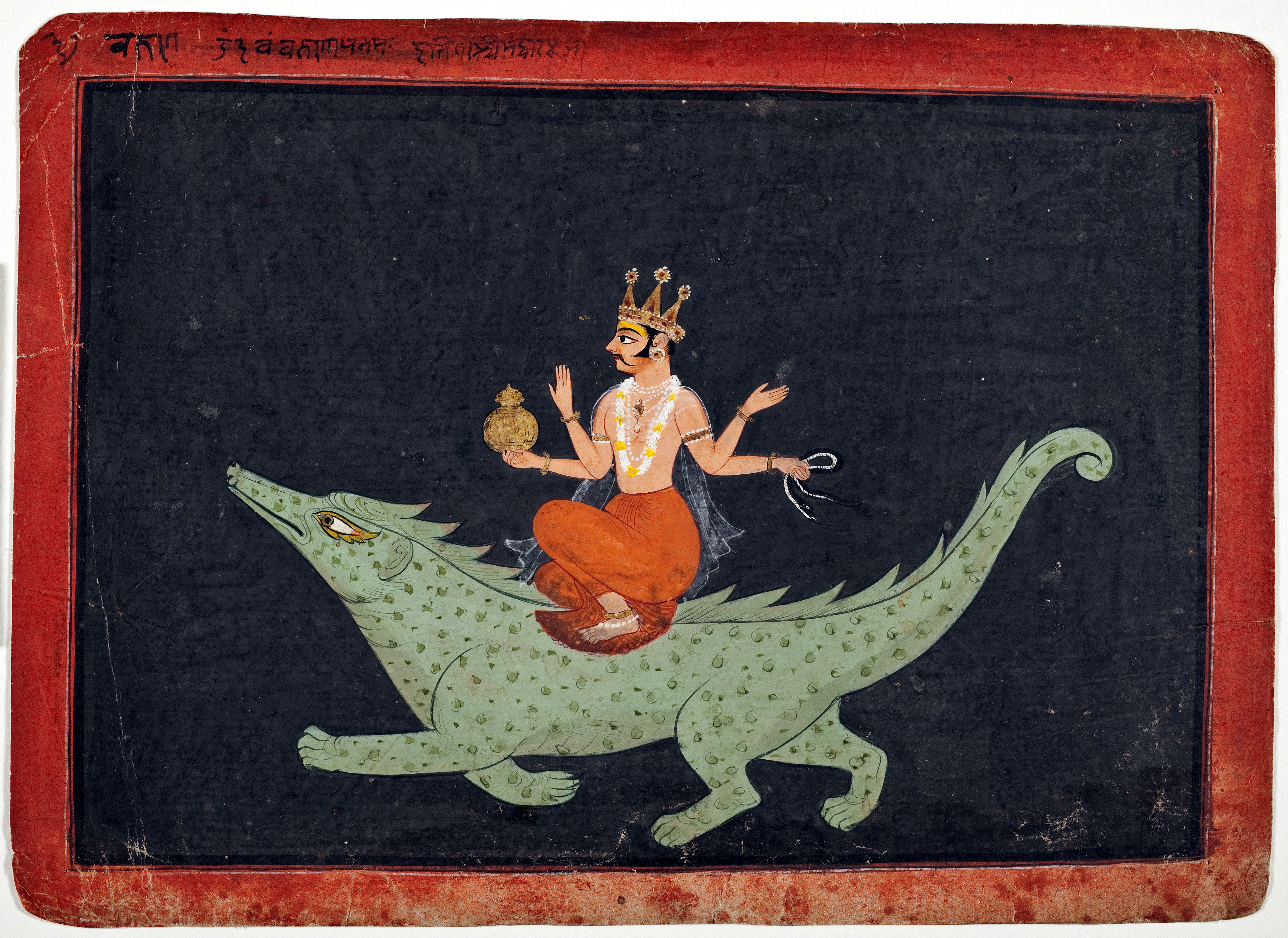 Varuna, India, Rajasthan, Bundi, South Asia; Gift of the Felix and Helen Juda Foundation